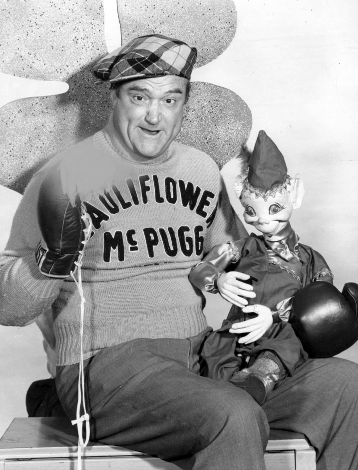 Red Skelton as Cauliflower McPugg from Skelton's 1960 television show.